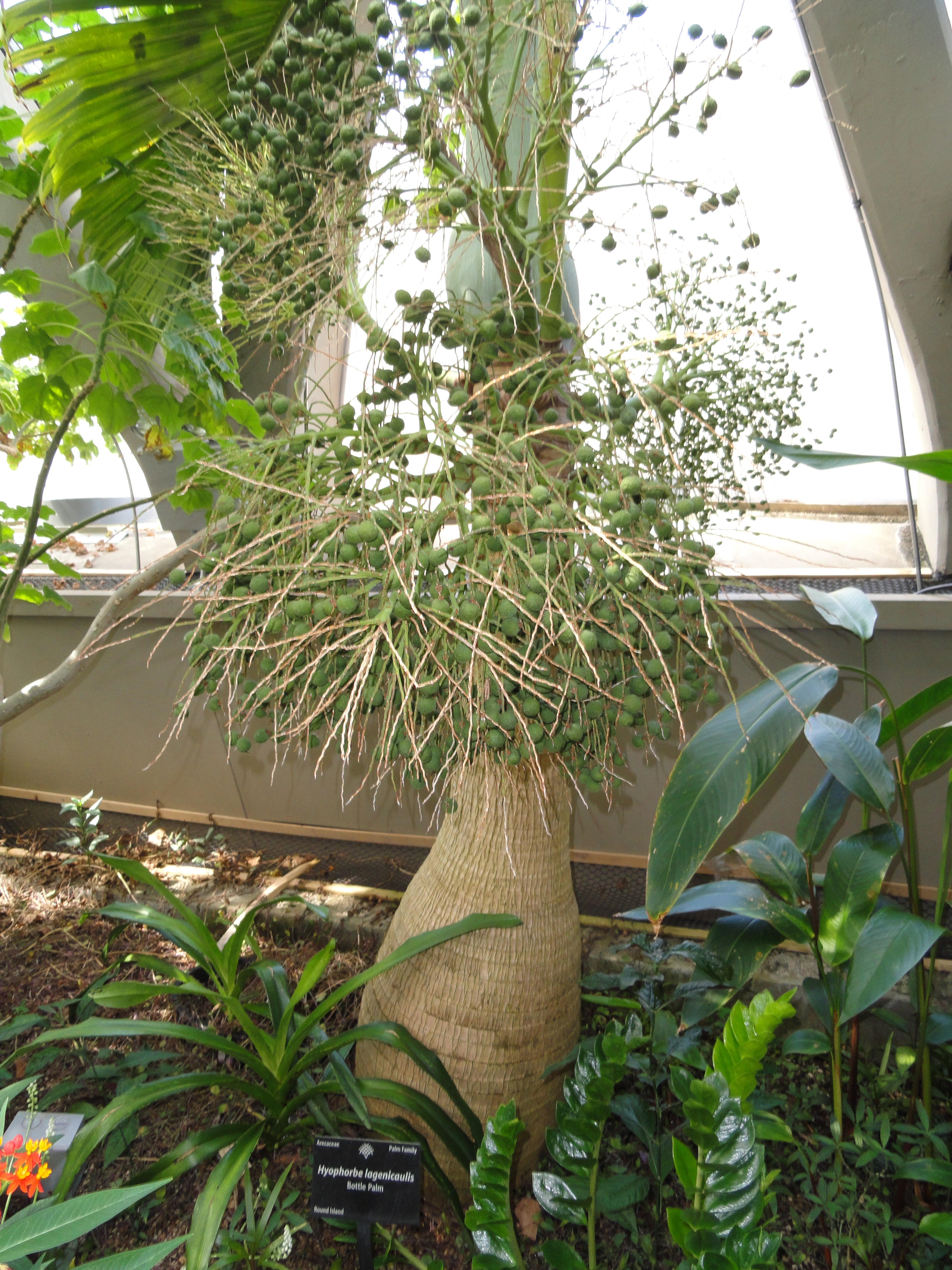 Hyophorbe lagenicaulis. Botanical specimen in the Denver Botanic Gardens, 1007 York Street, Denver, Colorado, USA.